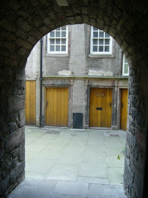 Archway leading to the house of town councillor and magistrate, Bailie John Macmorran. Through the inspiration of the pioneer town planner, Patrick Geddes, the house and its neighbour, built in the 1590s, were converted into the first student residences for Edinburgh University. The building gradually decayed until its renovation in 1946; and is now used as an adult education centre. 1315786